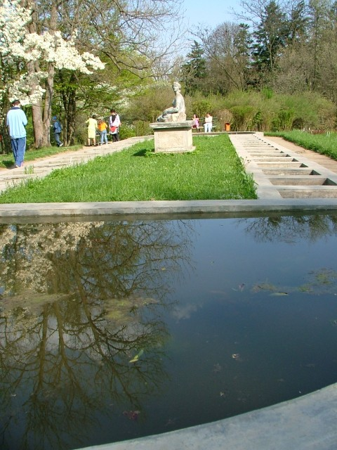 Botanical Garden in Cluj-Napoca. Near the water tower.